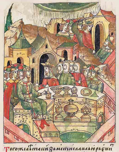 Strong rain; Assassination of tsyatsyky Andrey Glebov; Marriage of Mstislav Yurevich of Novgorod and a daughter of Petr of Novgorod